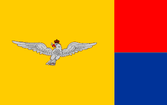 War ensign of the Principality of Wallachia, 1845